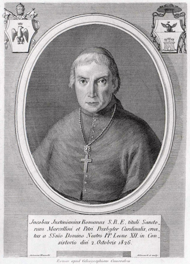 Kardinal Giacomo Giustiniani (1769-1843)